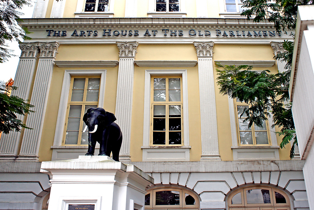 Elephant statue outside the Old Parliament House, Singapore.